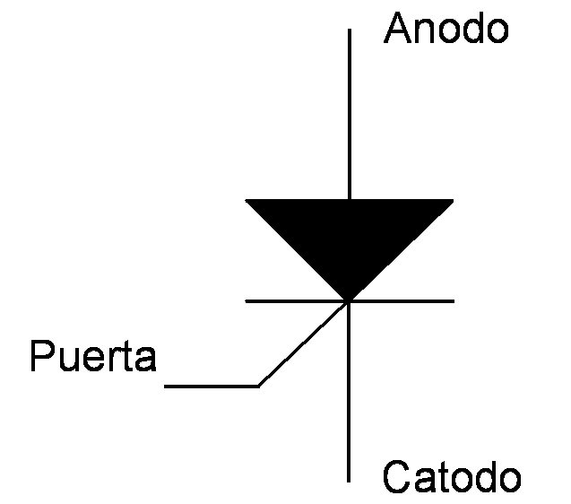 Schematic symbol for a thyristor